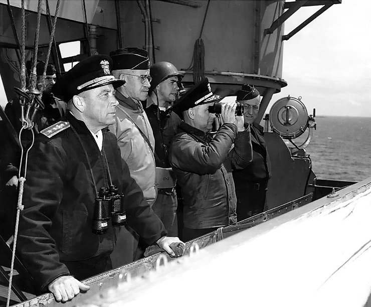 Senior U.S. officers watching operations from the bridge of USS Augusta (CA-31), off Normandy, 8 June 1944. They are (from left to right): Rear Admiral Alan G. Kirk, USN, Commander Western Naval Task Force; Lieutenant General Omar N. Bradley, U.S. Army, Commanding General, U.S. First Army; Rear Admiral Arthur D. Struble, USN, (with binoculars) Chief of Staff for RAdm. Kirk; and Major General Hugh Keen, U.S. Army.